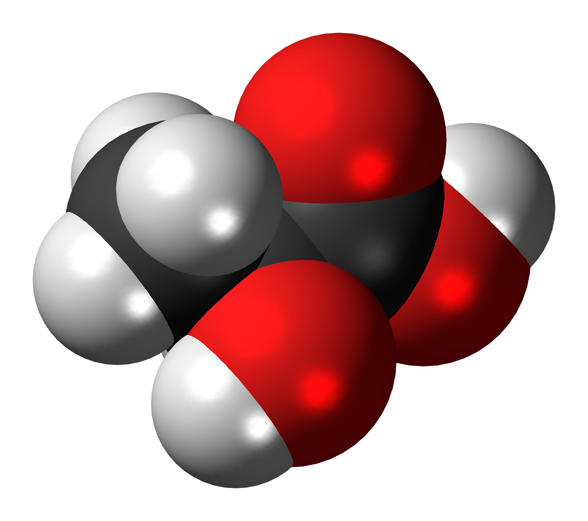 Space-filling model of the lactic acid molecule, a compound that plays an important role in respiration, and is most commonly associated with heavy exercise. This image shows the more common (in living organisms) L-isomer. Color code: Carbon, C: black Hydrogen, H: white Oxygen, O: red